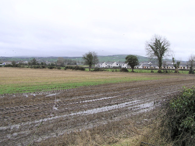 Porthall Townland. A view of the muddy fields.